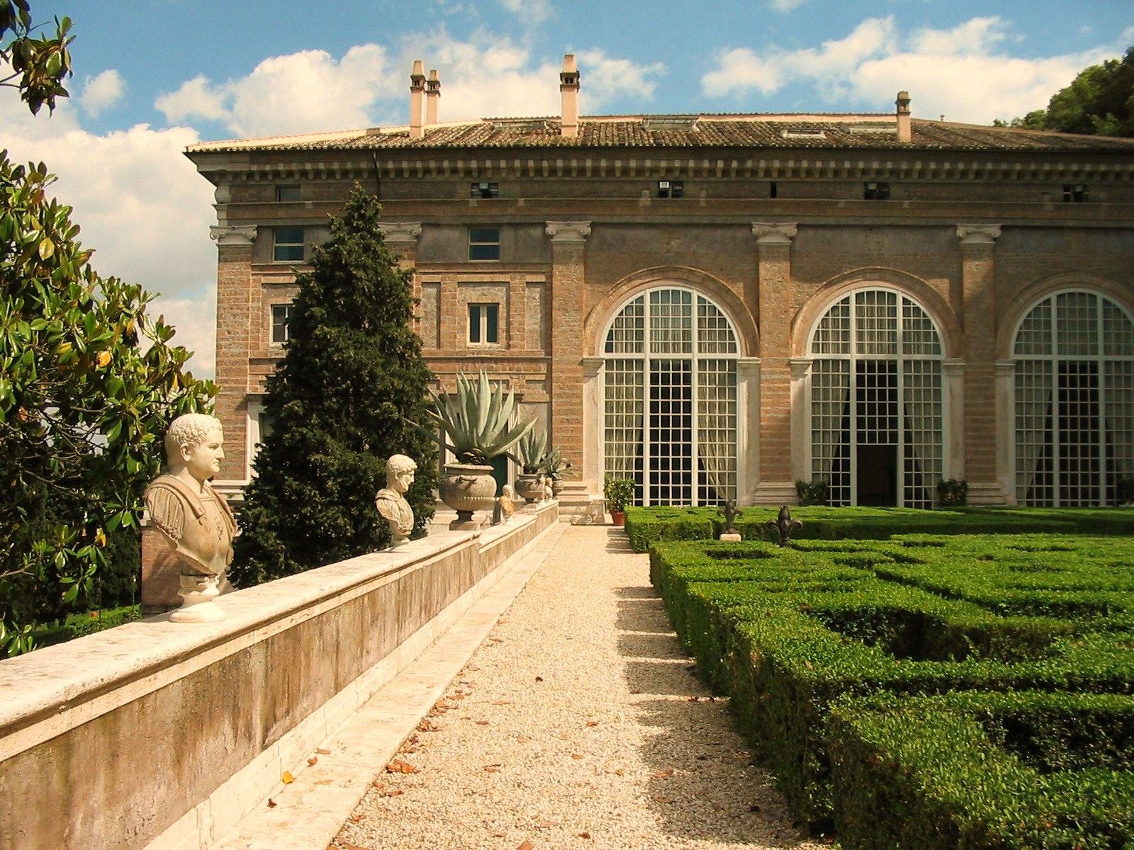 Garden of Villa Madama with the Loggia of Raffaello after the Piacentini's restoration that closed the Loggia with large windows.